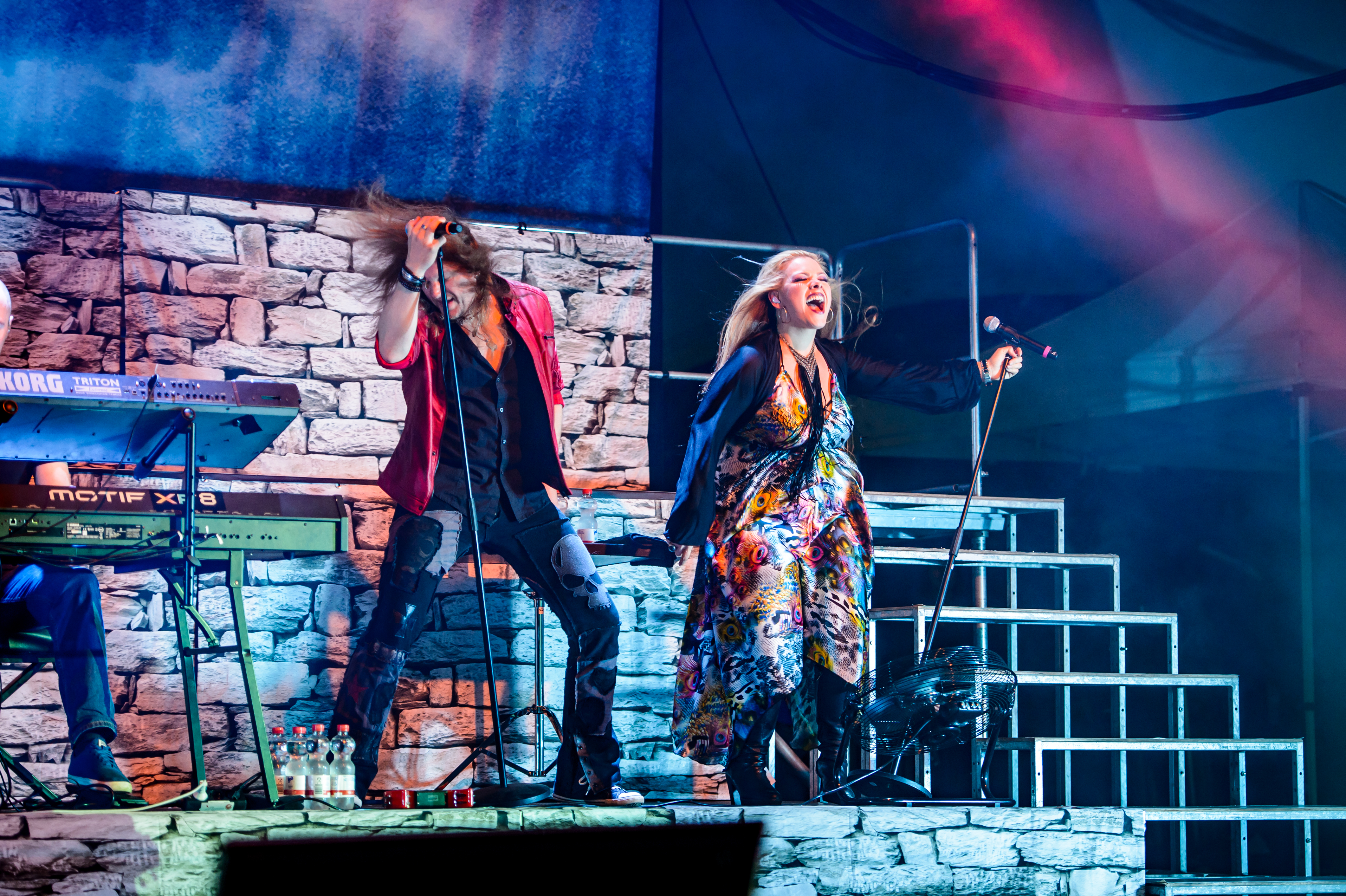 Avantasia; RockFels 2016 - Loreley